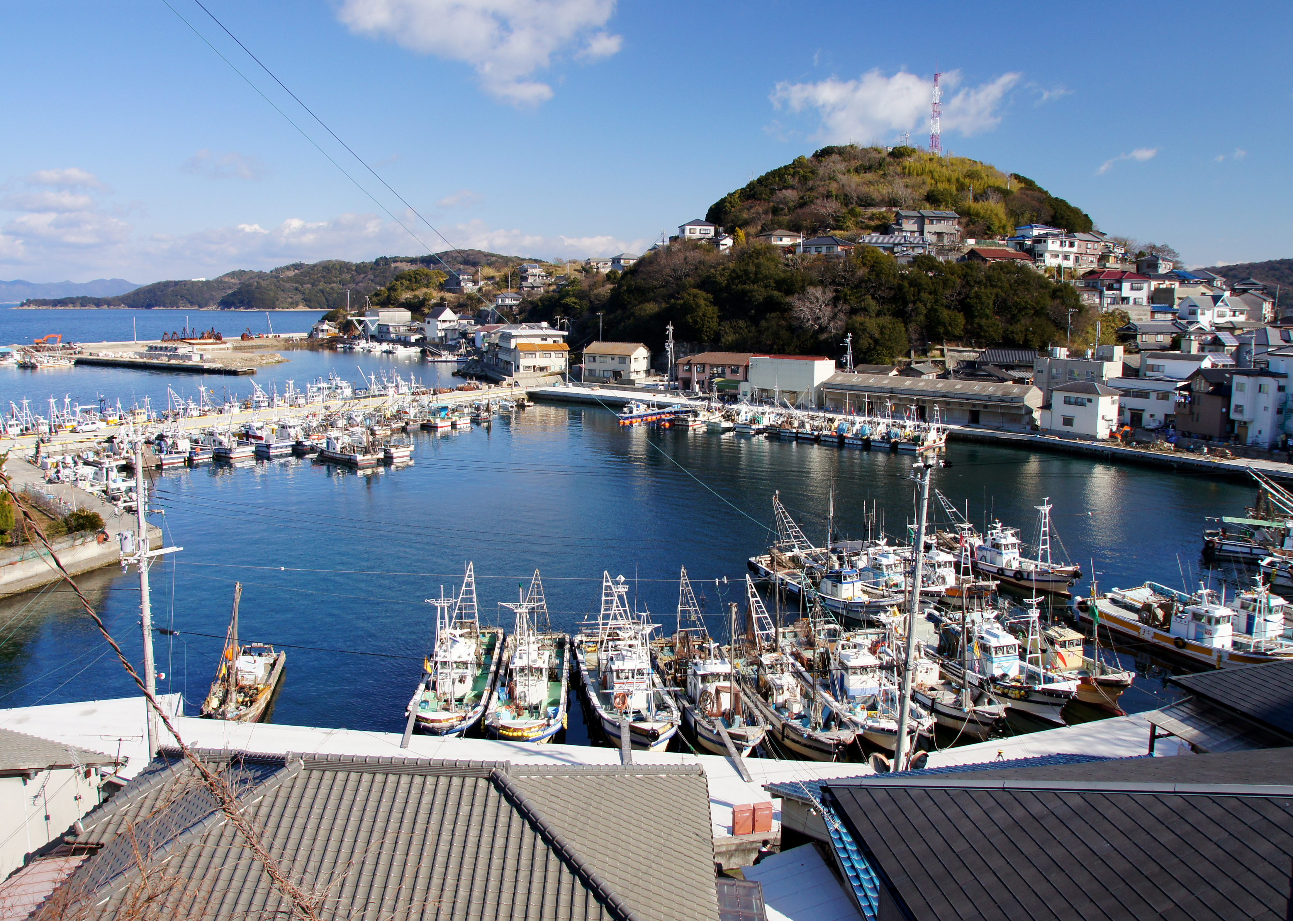 Naza Port in Bozejima Island, Himeji, Hyogo prefecture, Japan.